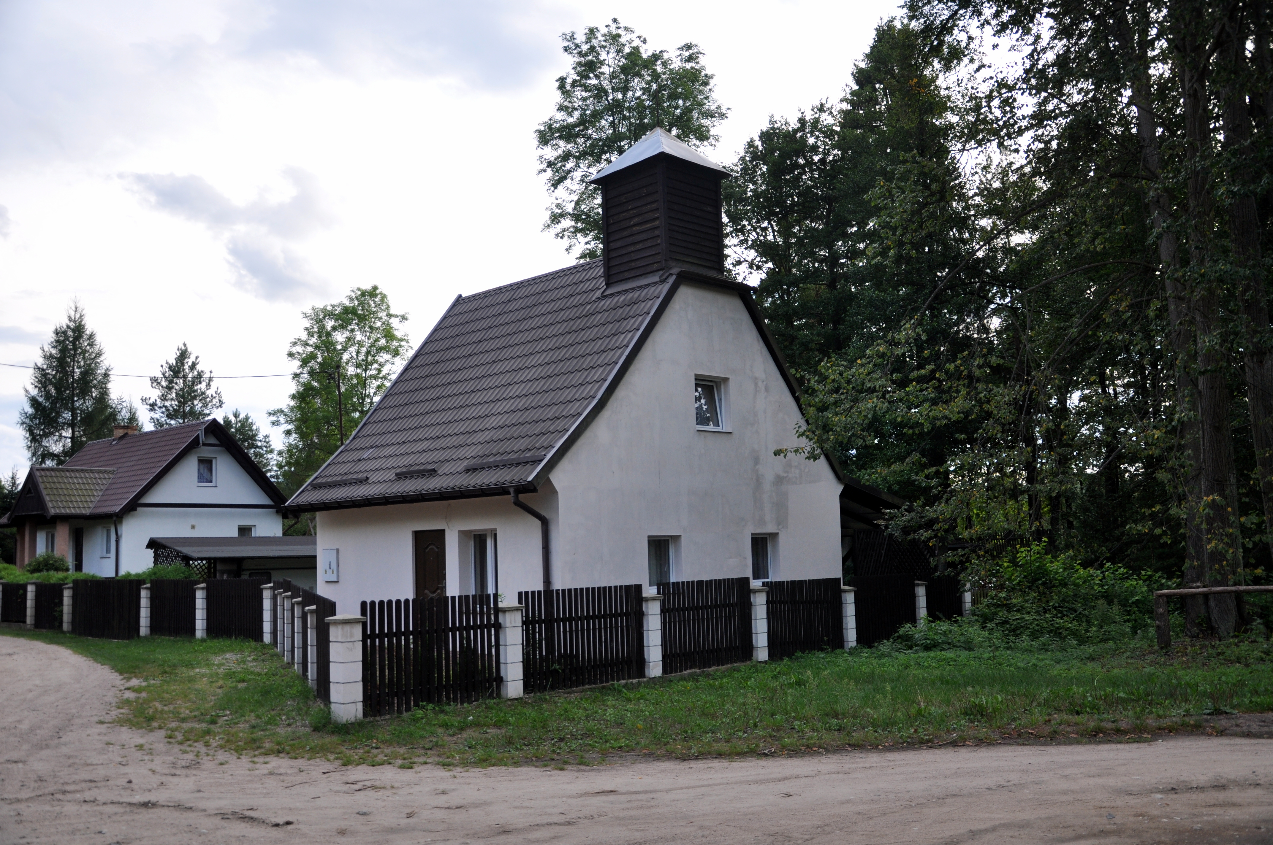 Former fire station in Rekownica